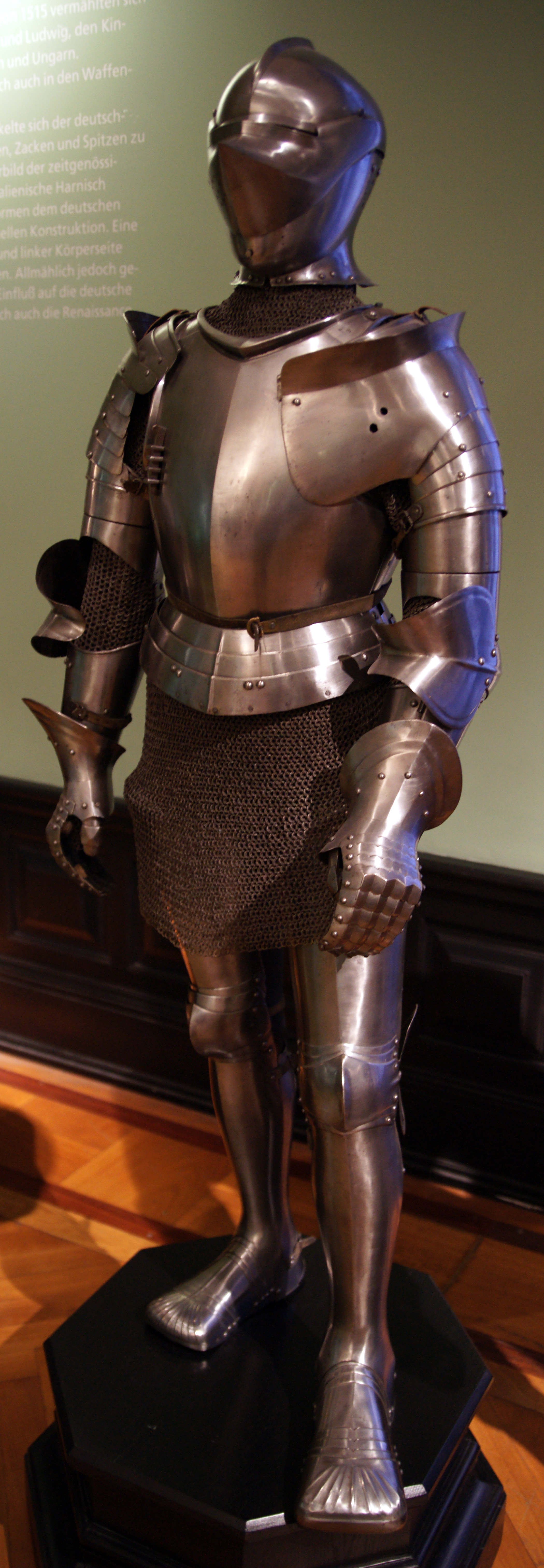 Armour of Giano II di Campofregoso, Doge of Genua 1513–13